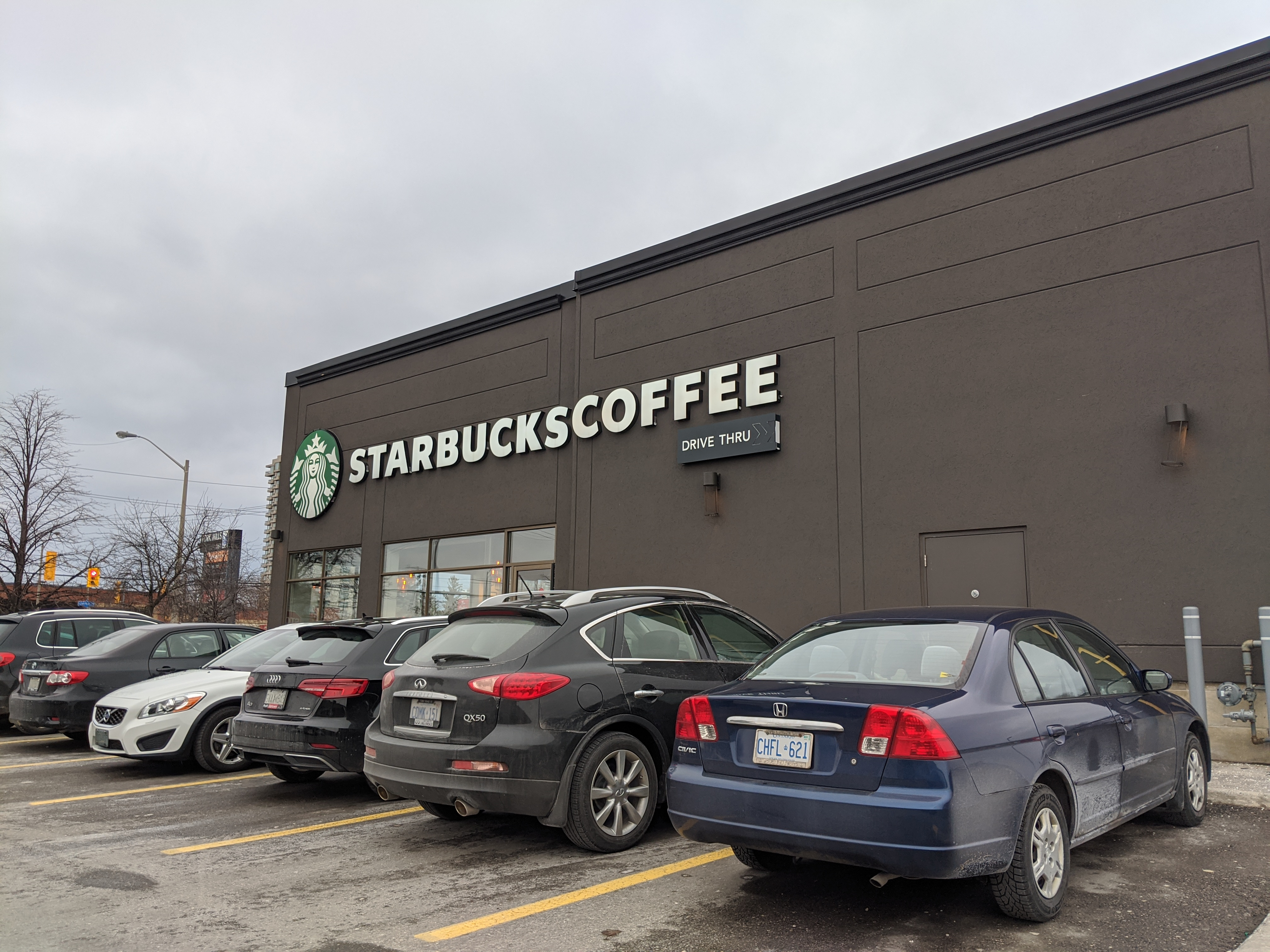 Starbucks in Toronto